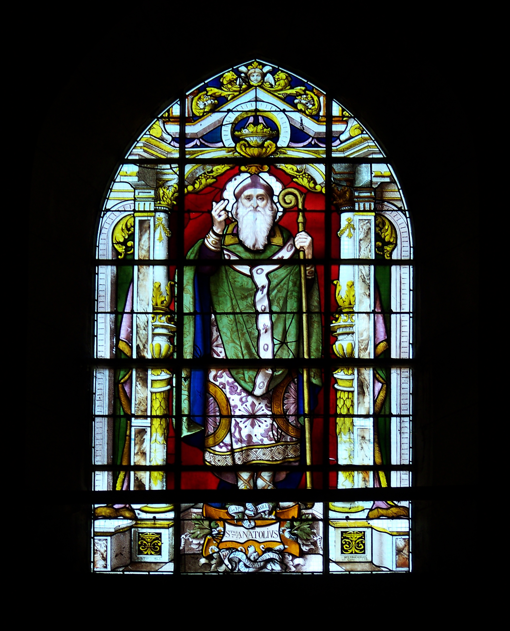 Saint Anatolius of Milan. Tainted glass window in the church of Ablis, Yvelines, France. Unknown author, fourth quarter of XIXth century.